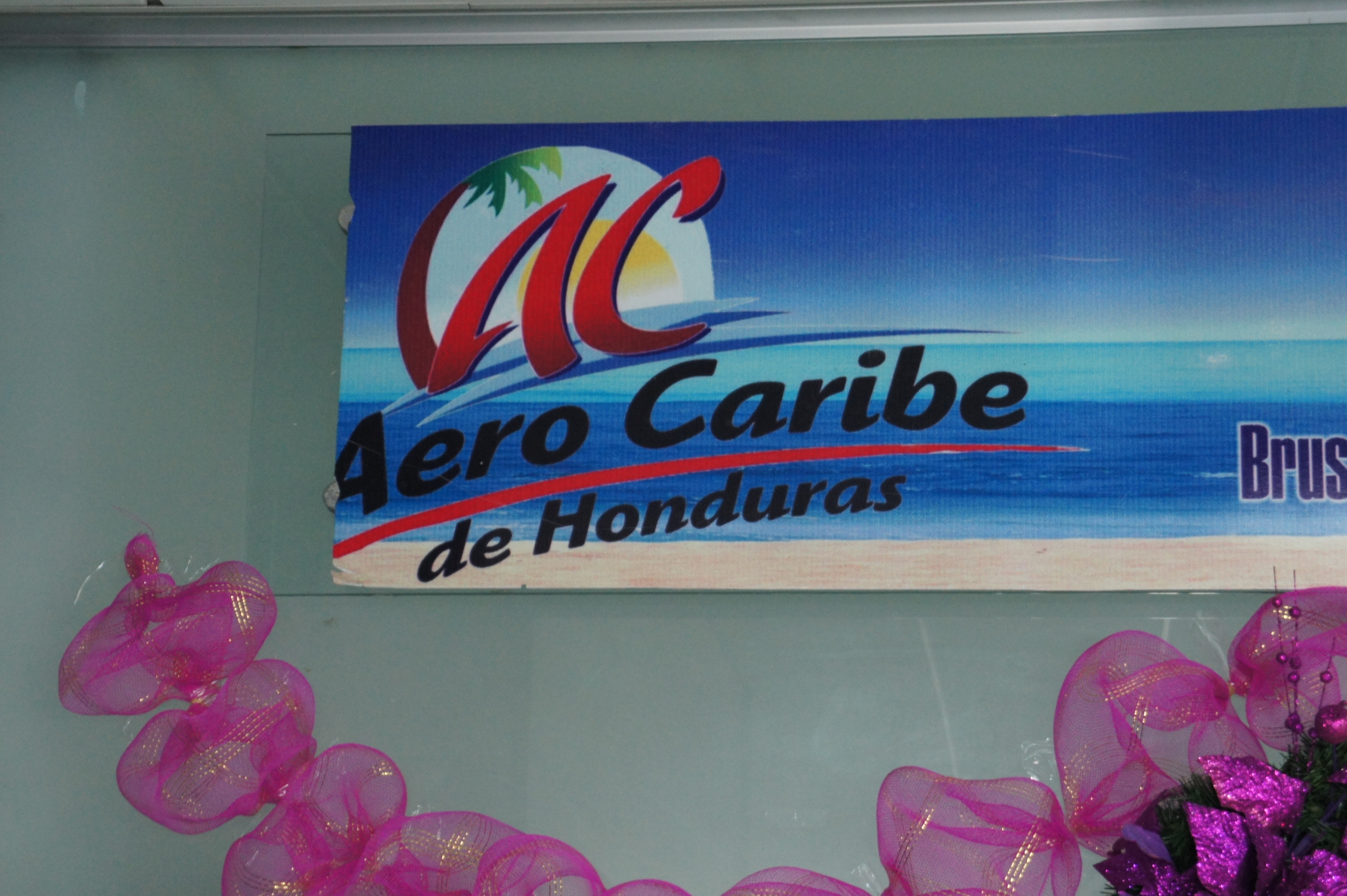 AeroCaribe logo at checkin counter, San Pedro Sula, November 2011